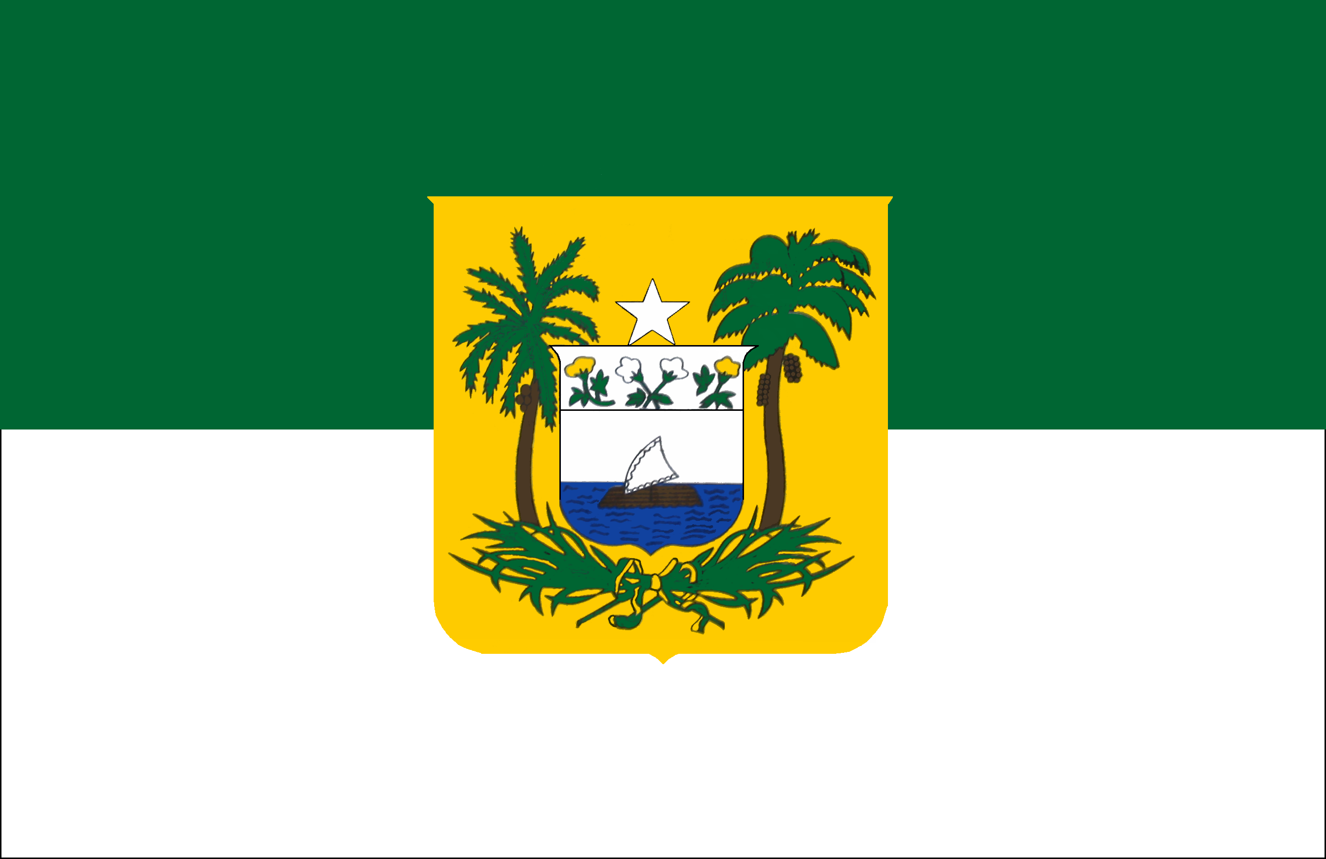 Flag of Rio Grande do Norte.